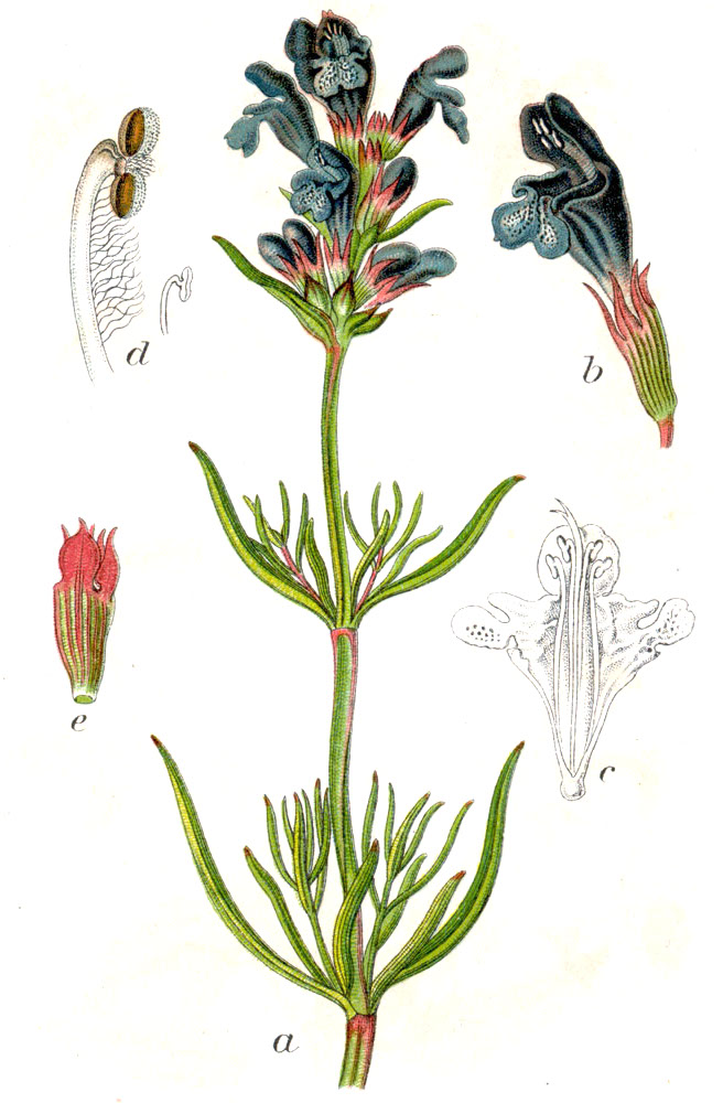 Dracocephalum ruyschiana L. Original Caption Ruysch-Drachenkopf, Dracocephalum ruyschiana